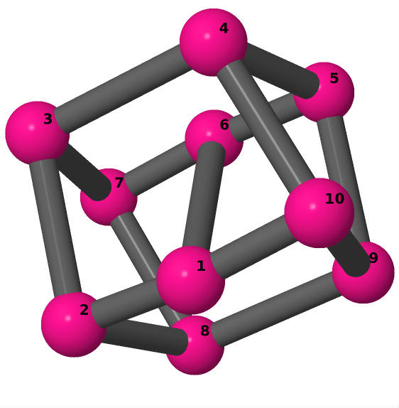 One of 19 simple cubic graphs with 10 vertices.